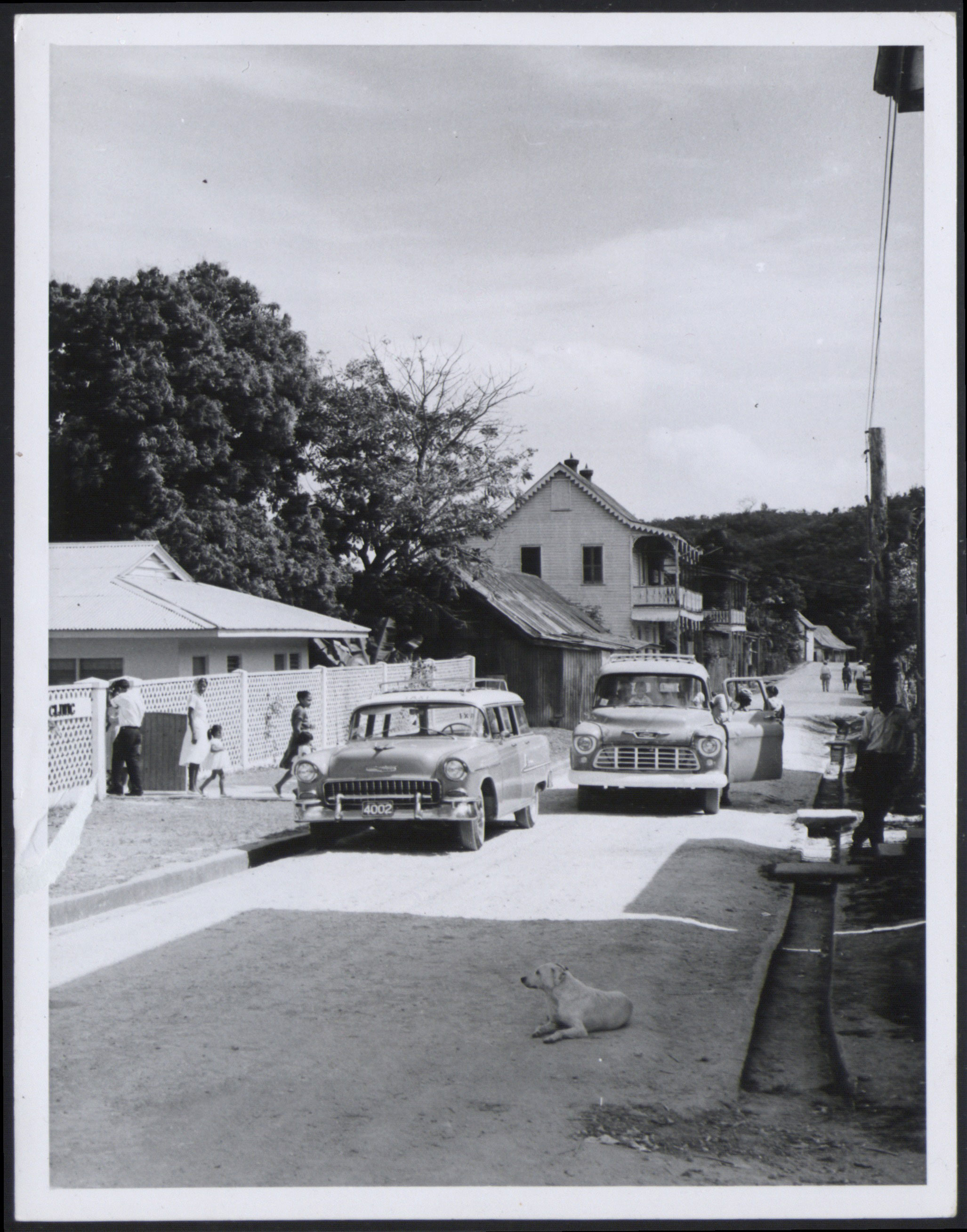 Street scene in Benque Viejo del Carmen, Cayo District, British Honduras/Belize. This image is part of the Central Office of Information's photographic collection held at The National Archives, uploaded to Flickr Commons as part of the Caribbean Through a Lens project. Photograph No R 34997.